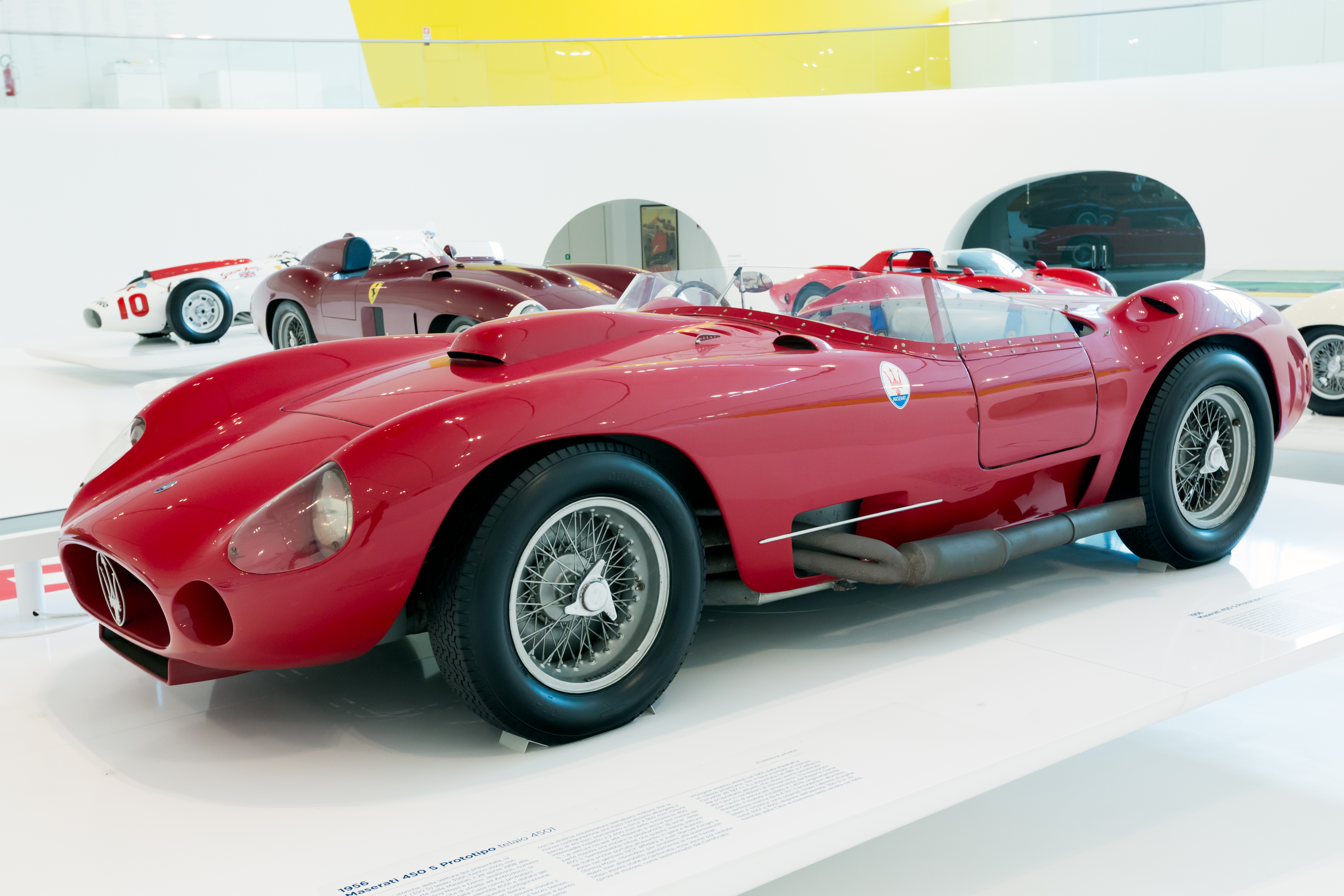 1956 Maserati 450S Prototype (chassis 4501)